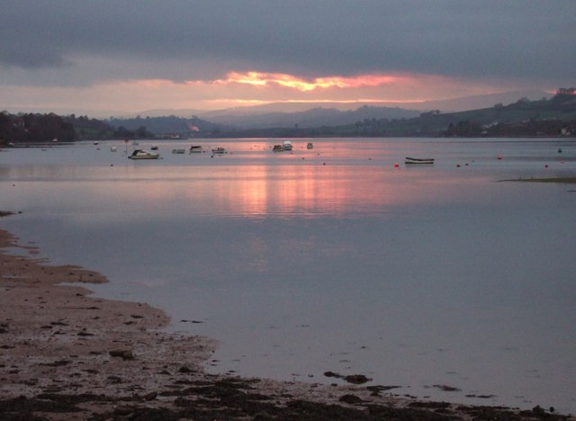 Sunset over River Teign Looking up the Teign estuary from the southern end of Shaldon Bridge; the distant shores are all out of square.